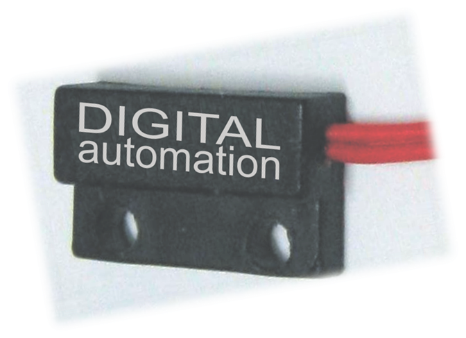 A reed switch operated by a magnet/magnetic field and used as a magnetic proximity detector. Also used for sensing speed, home security automation, position detection etc